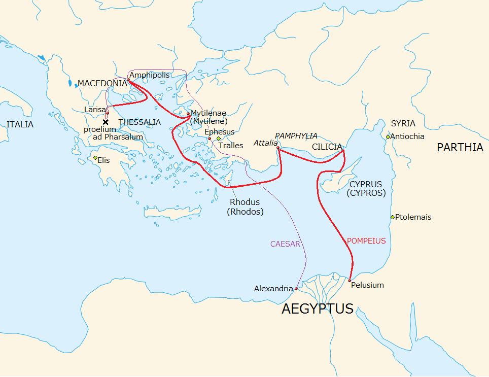 map for Pompey's flight to Egypt (by Latin)